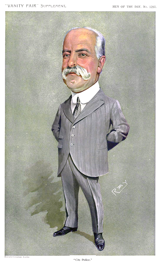 Men of the Day No.1297: Caricature of Capt Sir William Nott-Bower CVO. Caption reads: "City Police"